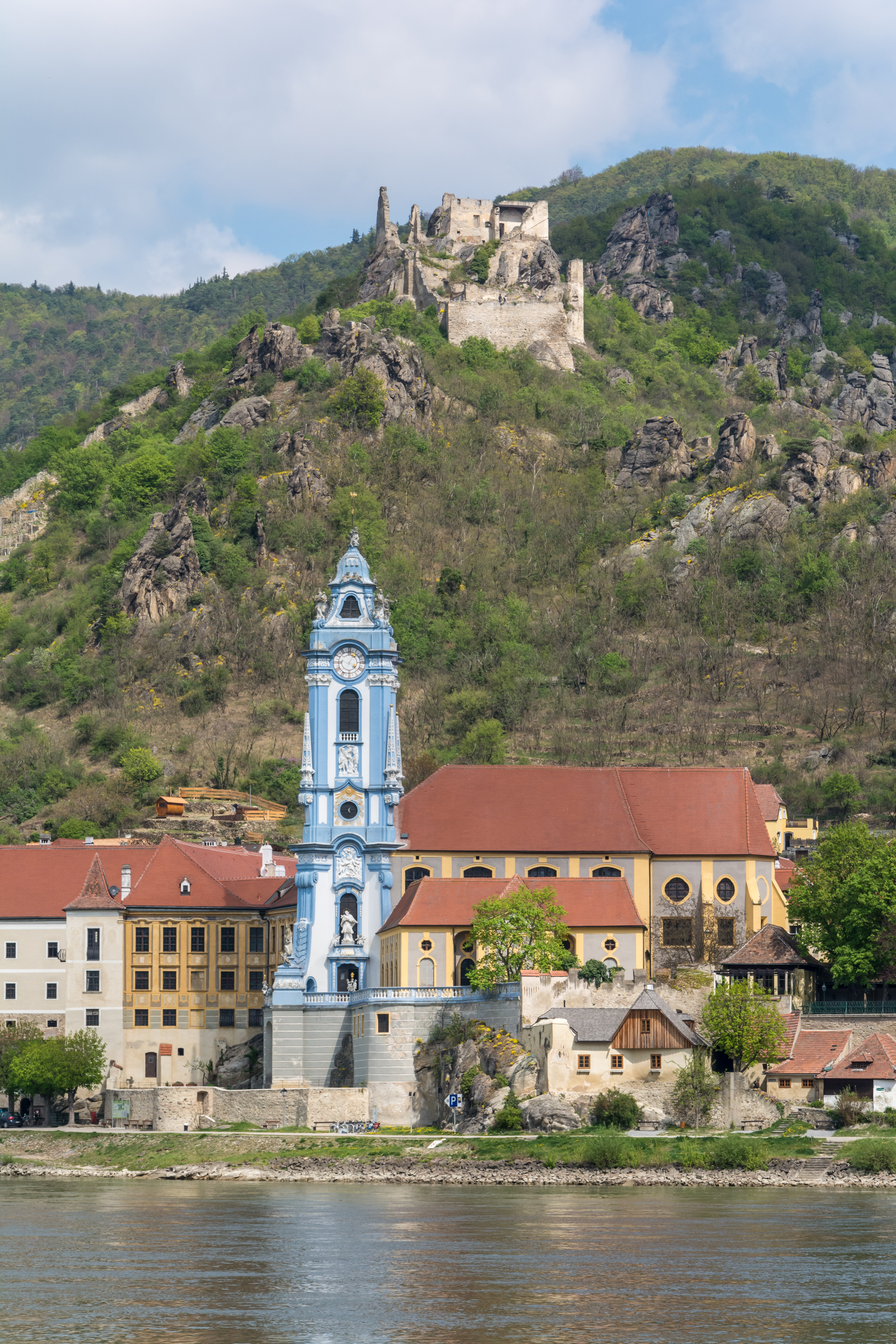 Church and castle of Dürnstein, Wachau, Lower Austria